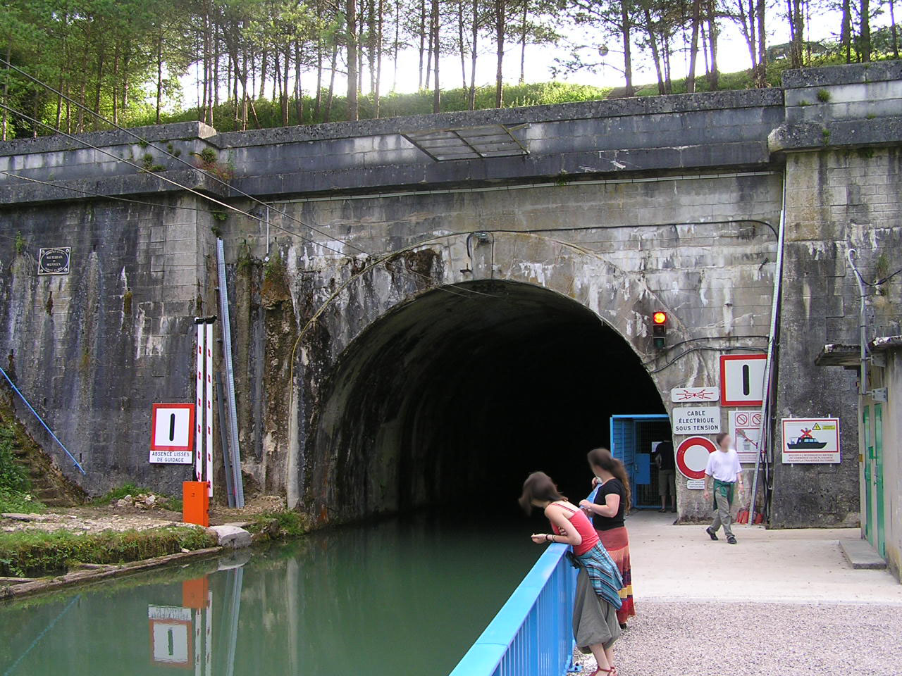 Canal tunnel of Mauvages, France.